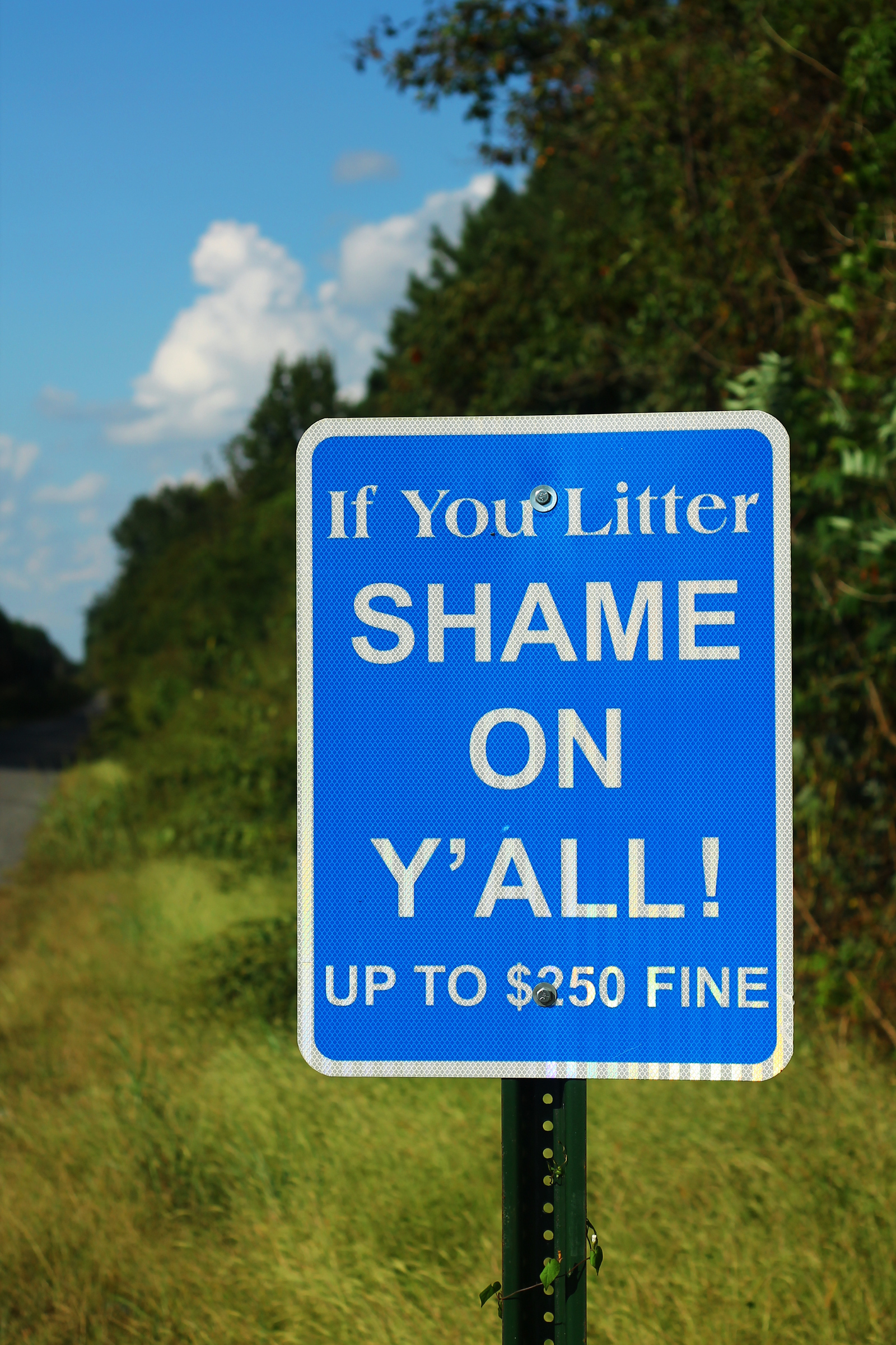 If You Litter Shame On Y'all